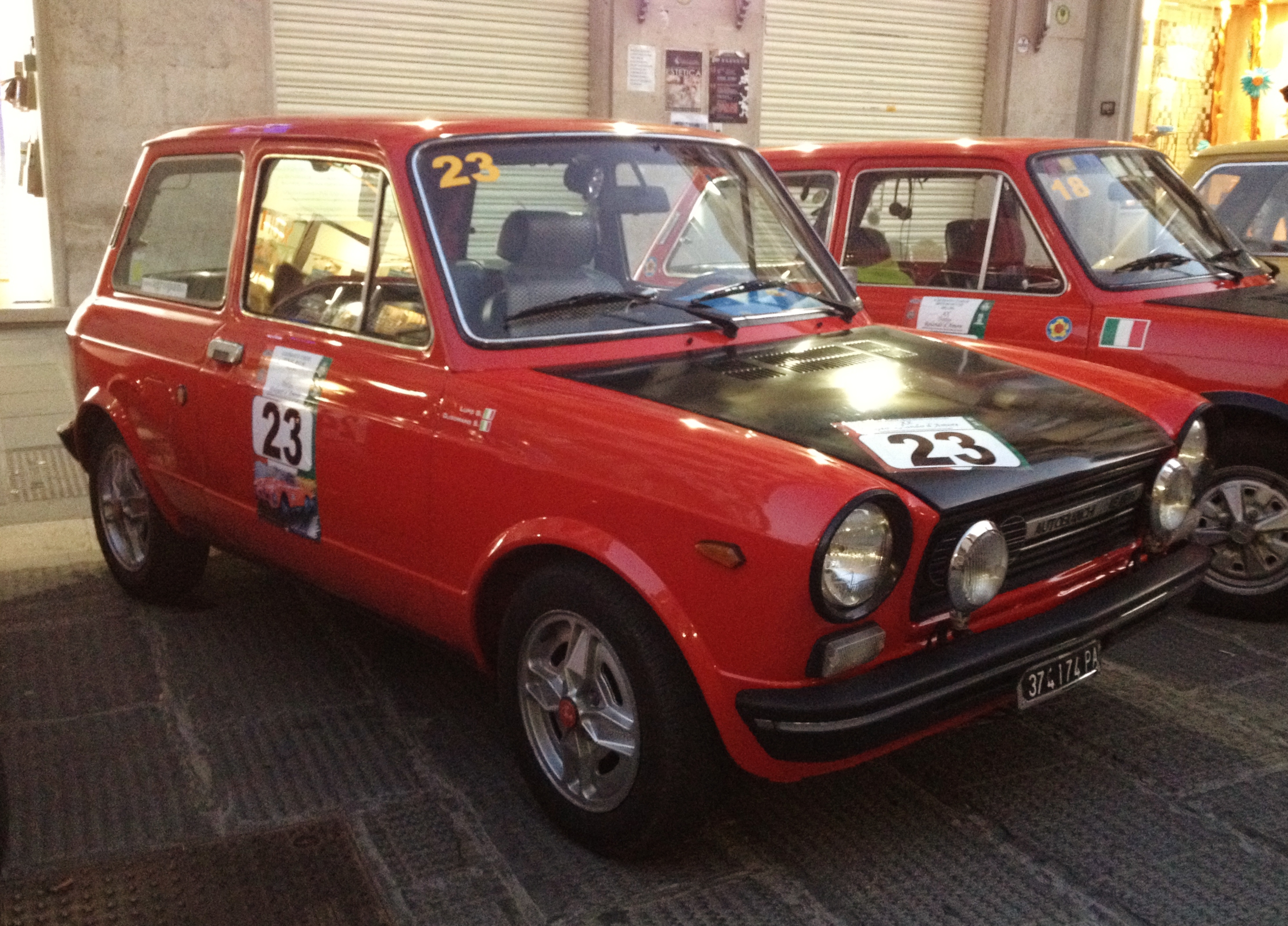 Autobianchi A112 Abarth red